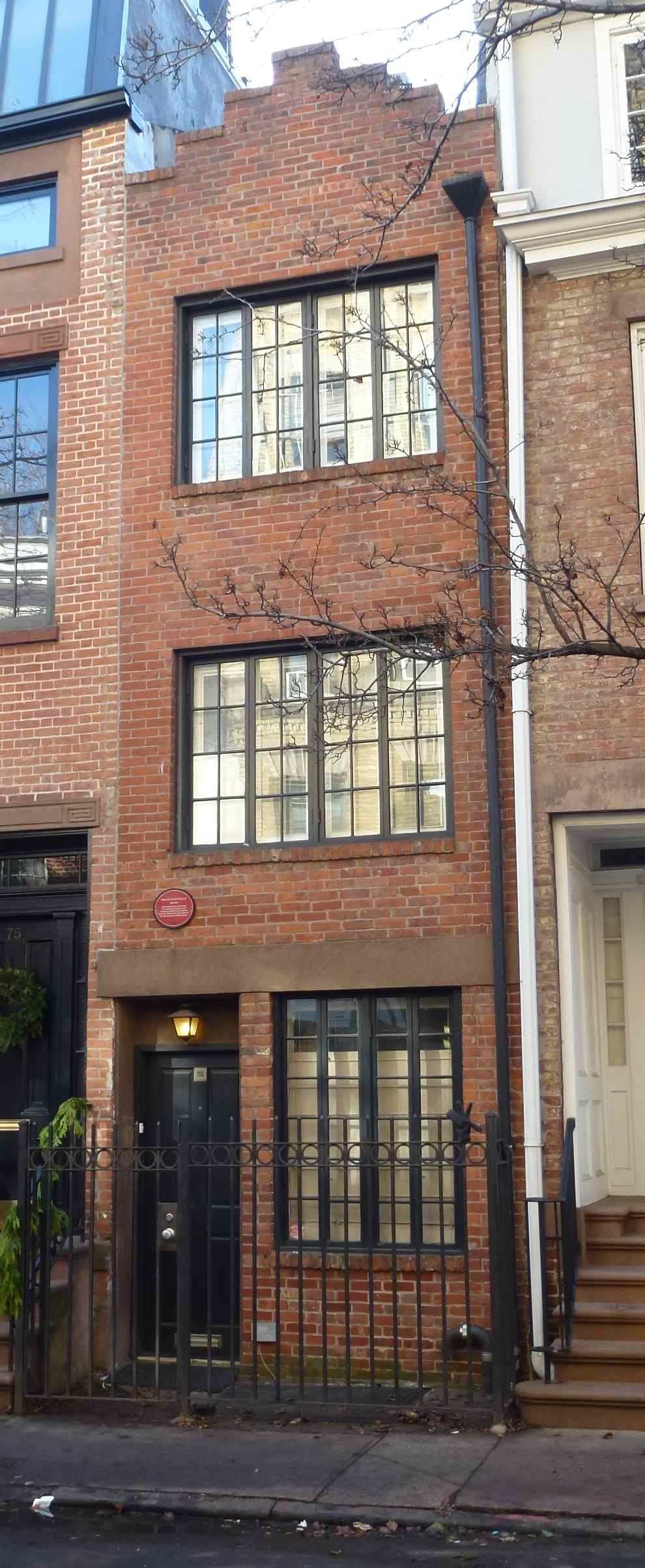 Edna St. Vincent Millay home 1923–24 at 75½ Bedford St Greenwich Village, New York City, New York